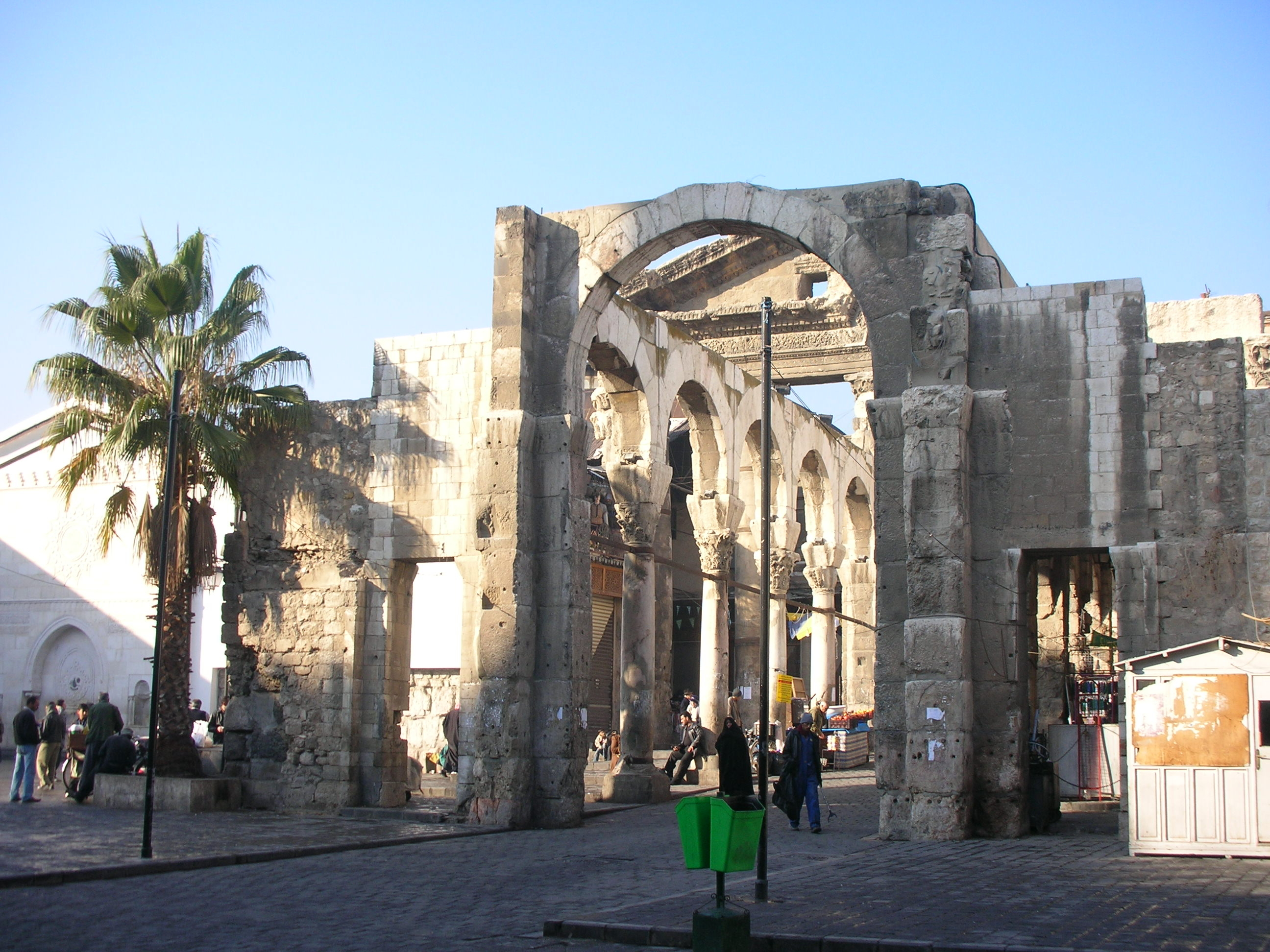 Ancient City of Damascus (Syrian Arab Republic)